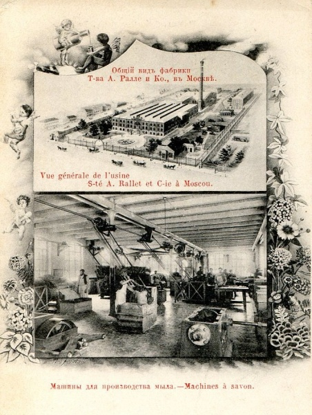 Overview of the Rallet factory and the interior of the soap works.